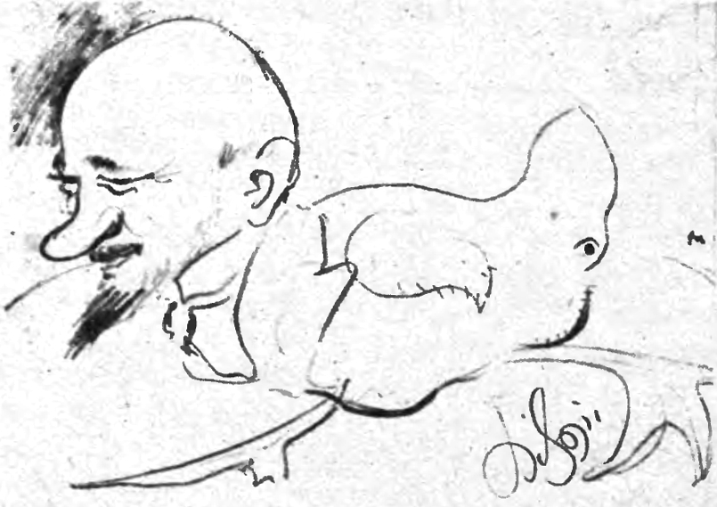 Kornel Makuszyński by Kazimierz Sichulski.